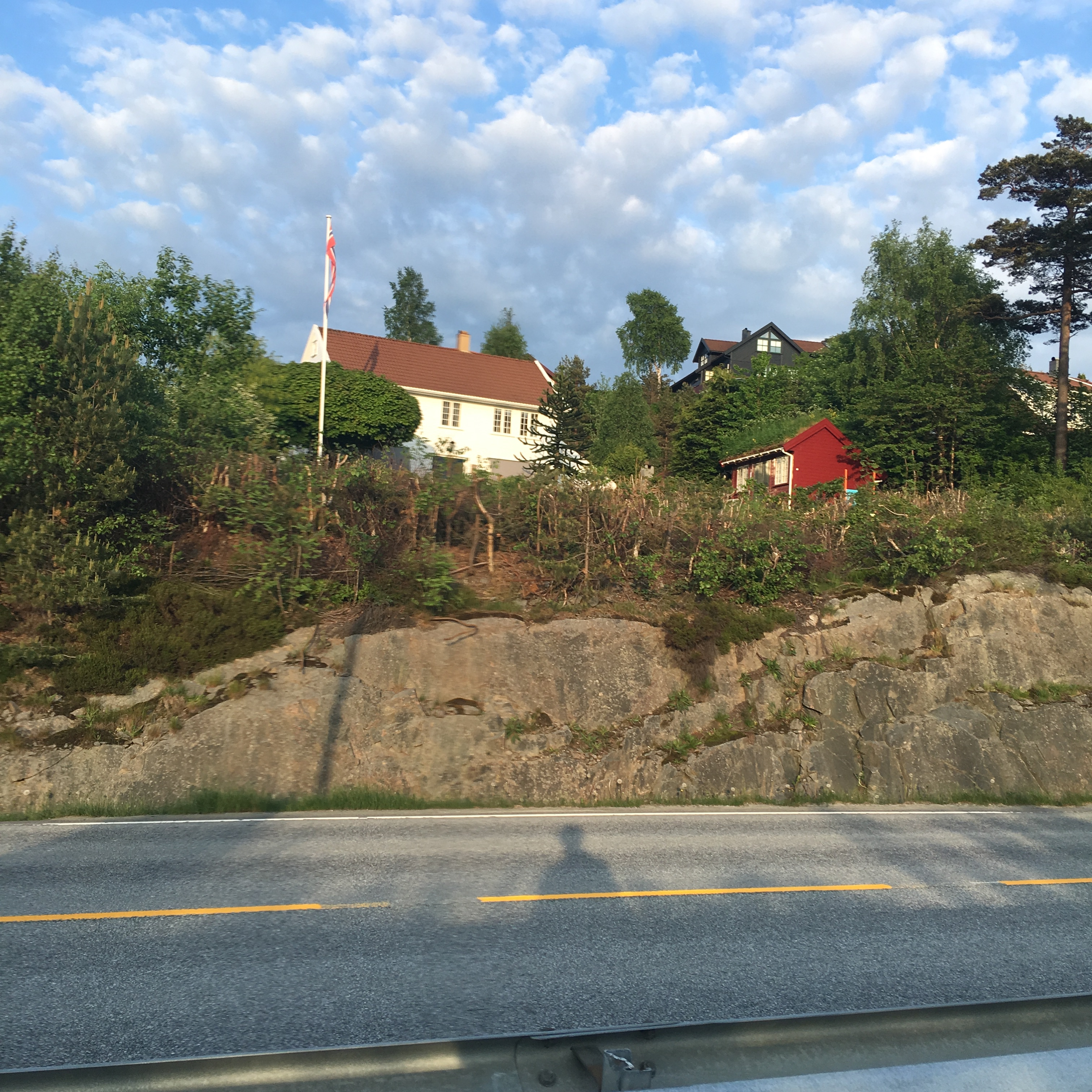 Odderhei Terrasse in Tømmerstø, Randesund, Kristiansand